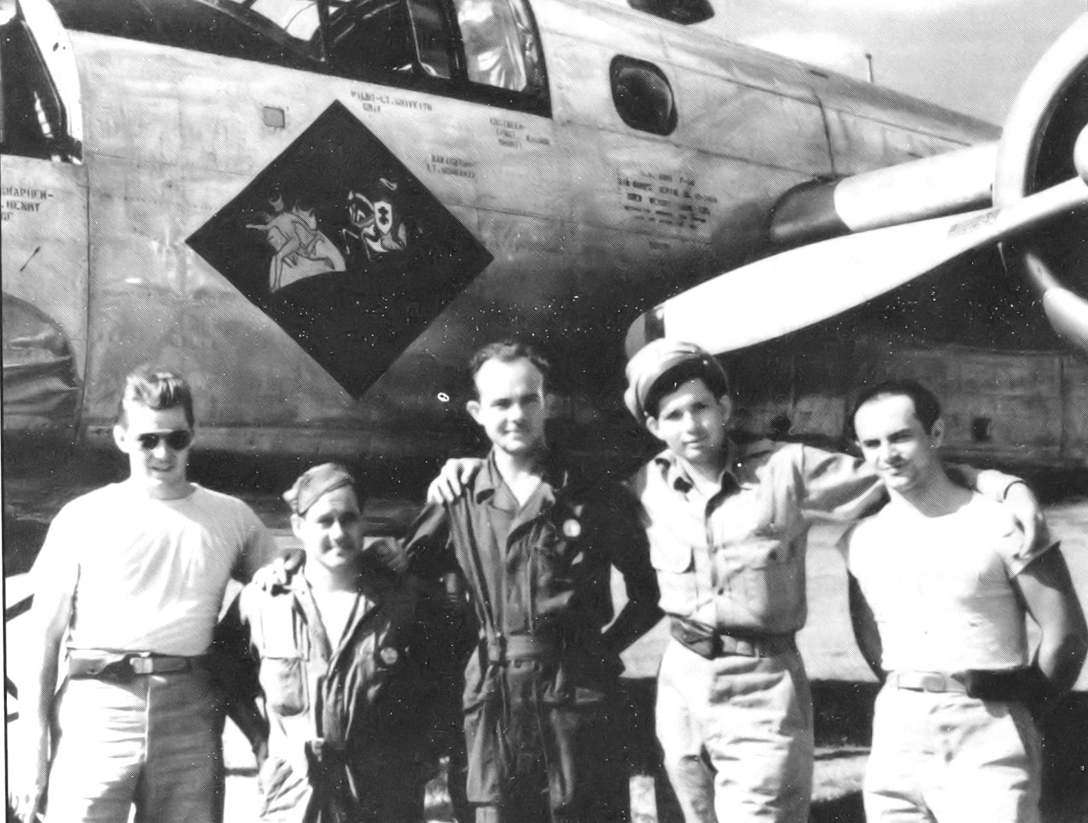 Crew of North American B-25D-30 Mitchell 43-3438, 91st Photographic Mapping Squadron - Flight B about 1944